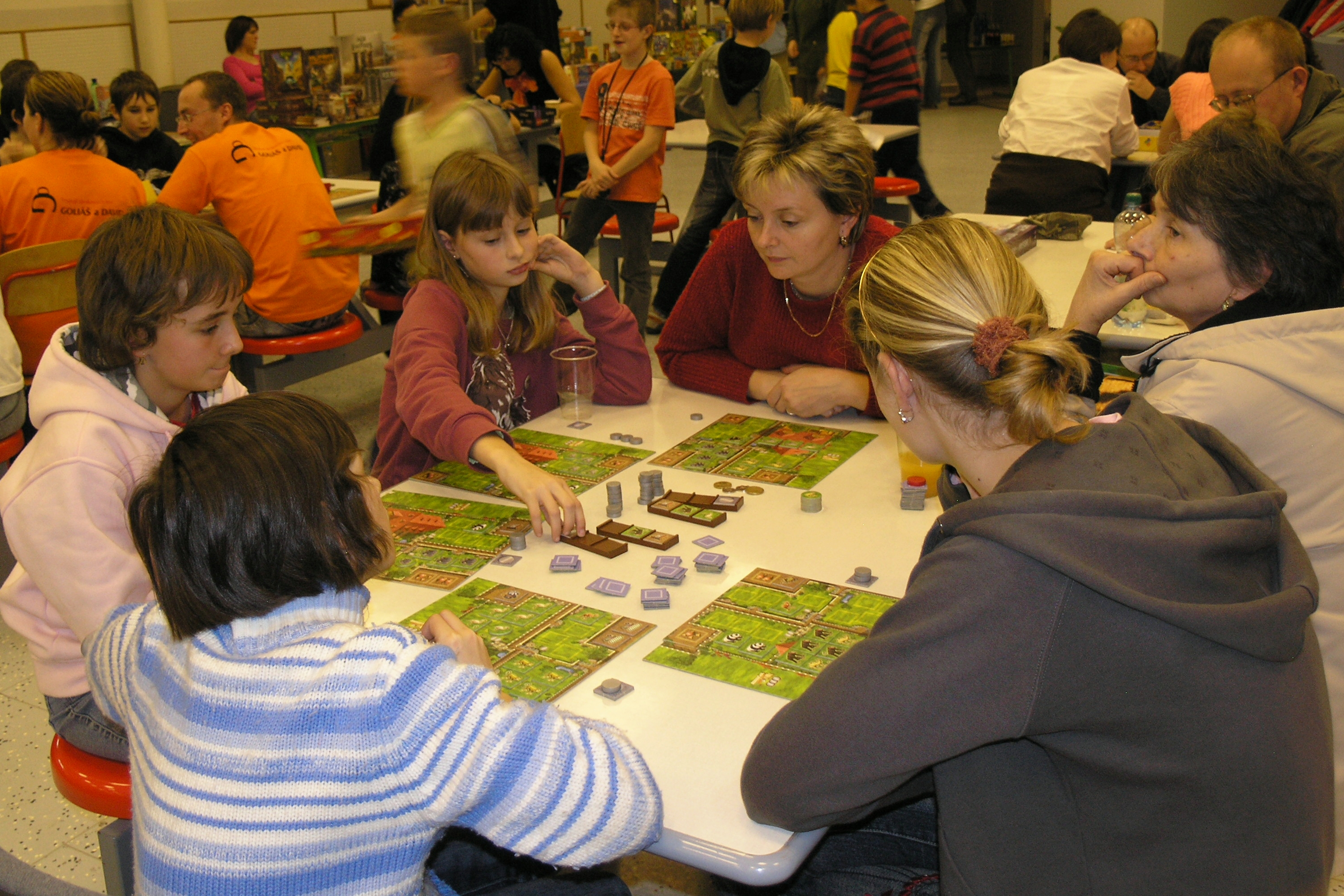 Personality rights warning Although this work is freely licensed or in the public domain, the person(s) shown may have rights that legally restrict certain re-uses unless those depicted consent to such uses. In these cases, a model release or other evidence of consent could protect you from infringement claims.